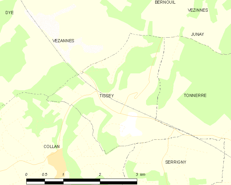 Map of French municipality Tissey